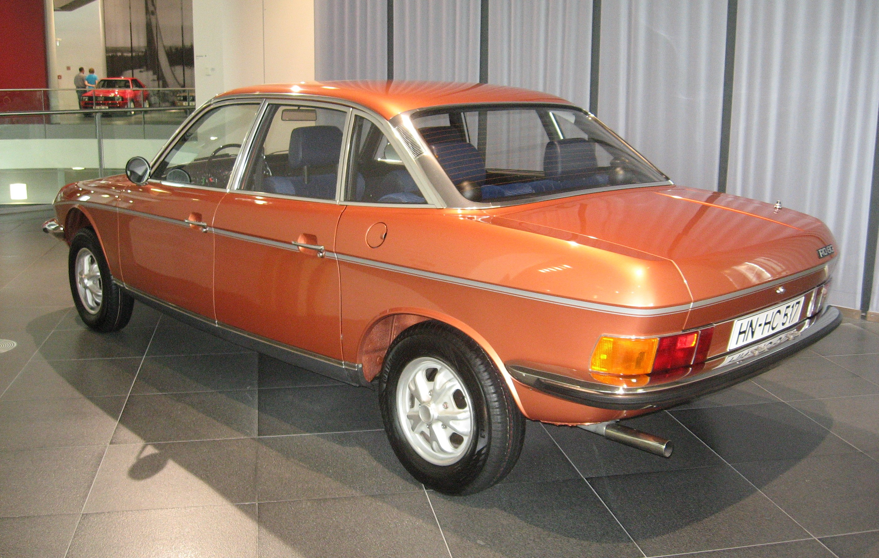 Subject: NSU Ro 80 Author: Luc106 Date:June 13th, 2011 Place/Country: Audi Museum, Ingolstadt (Deutschland) I release all rights in the public domain. Licensing